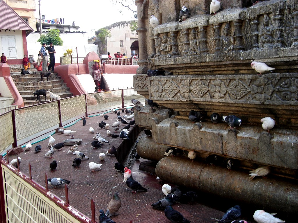 Pegions at the Kamakhya temple, Guwahati, Assam, India.